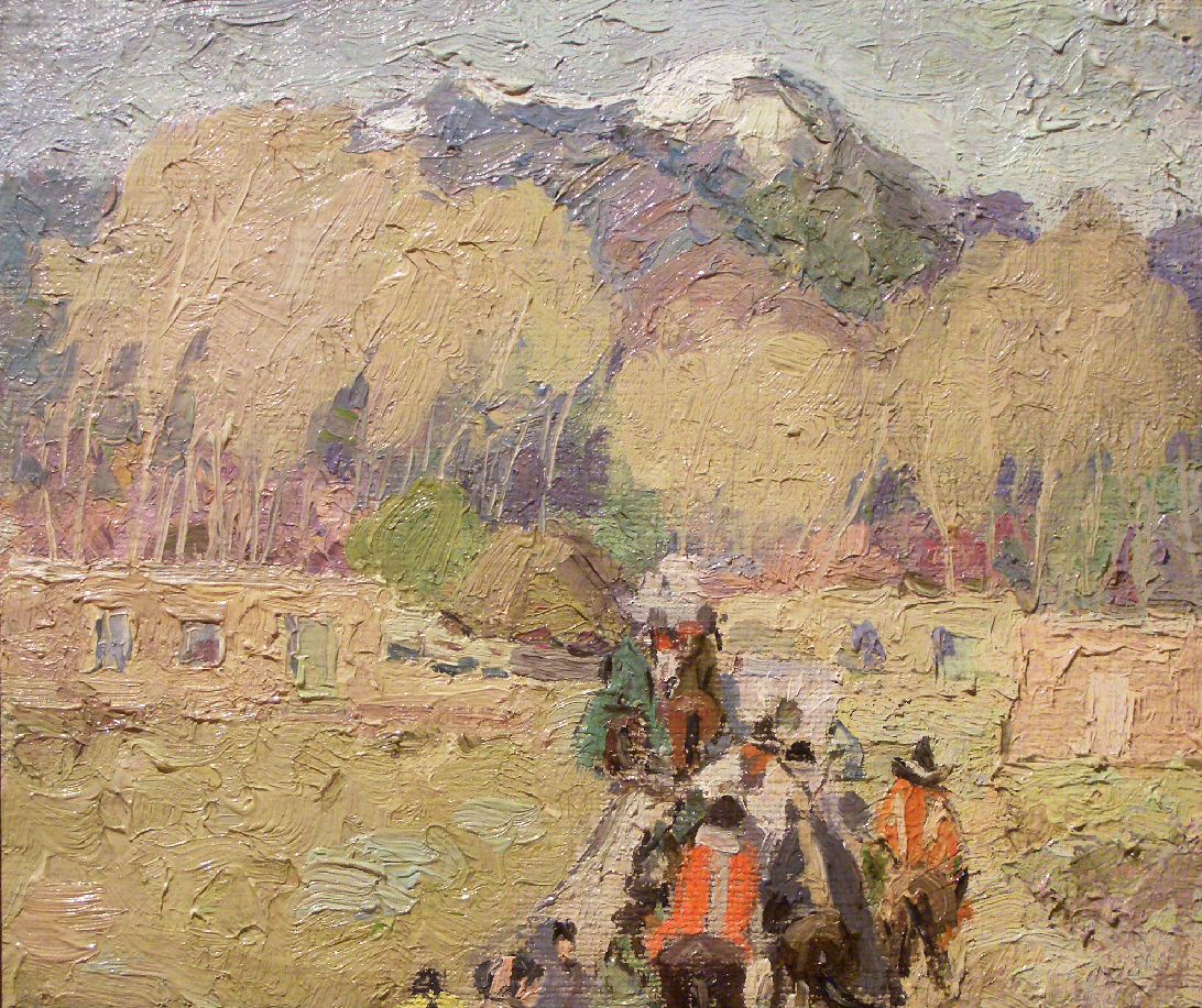 "Taos Mountain, Trail Home". by Cordelia Wilson; ca. 1915-1920s; oil painting. Landscape scene painted in Taos County, New Mexico.